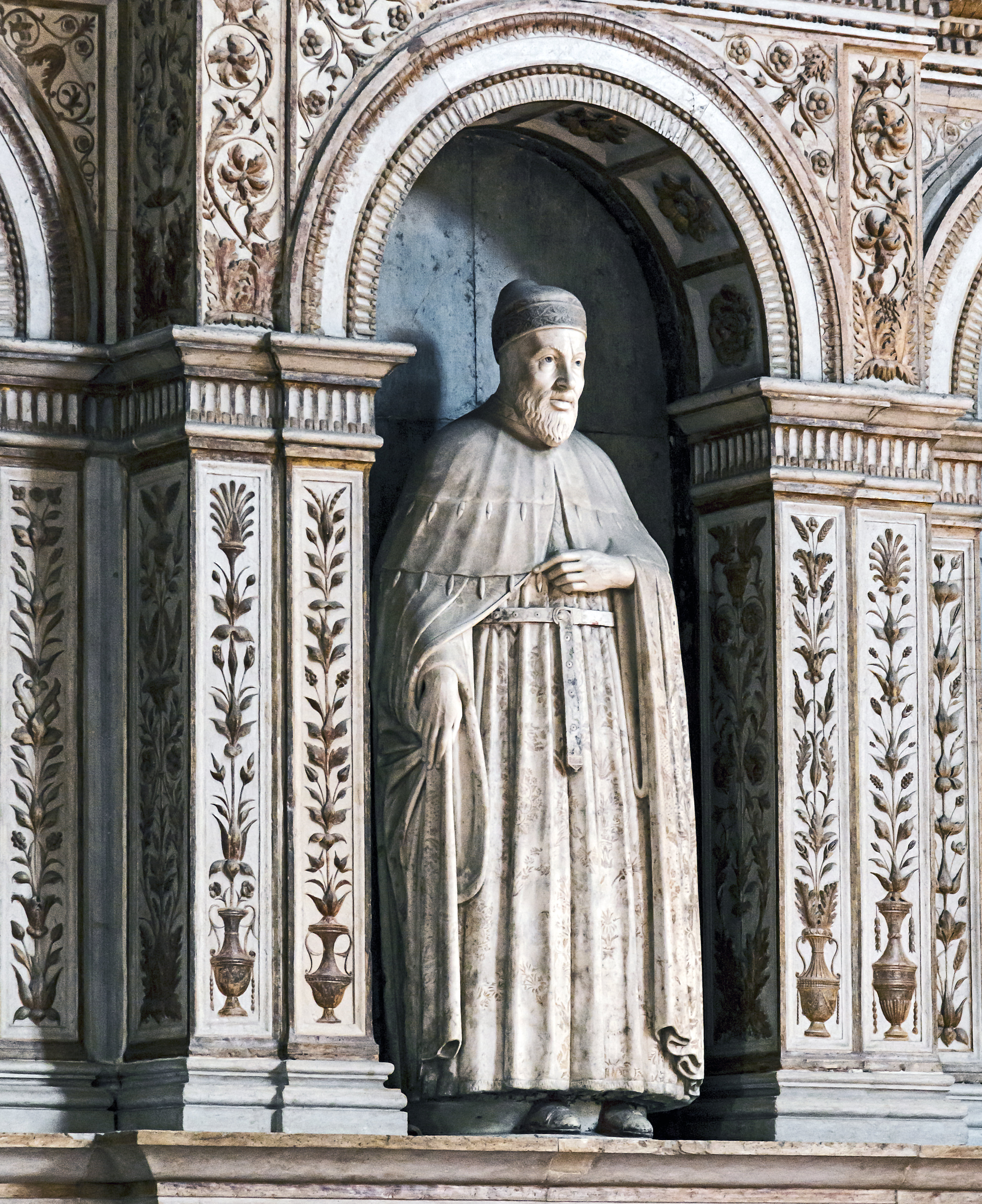 The Basilica di Santa Maria Gloriosa dei Frari. Choir, monument to Niccolò Tron sculpted by Antonio Rizzo.